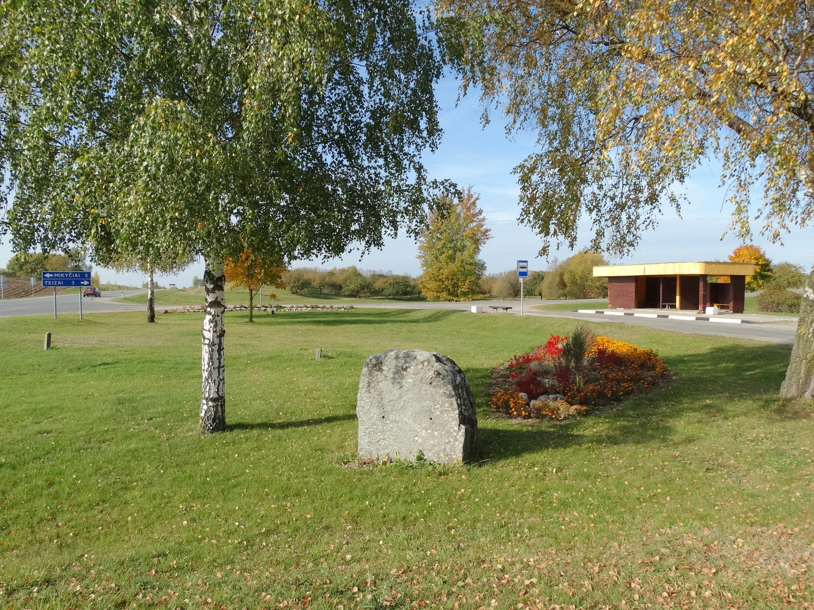 Bus stop, Šventežeris, Lazdijai district, Lithuania